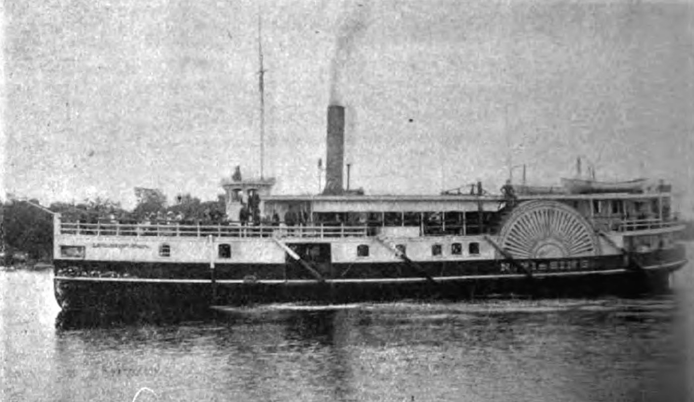 Photograph of the Lake Muskoka Steamship SS Nipissing, launched 1887 by the Muskoka Lakes Navigation Company. She was rebuilt in 1924 as the RMS Segwun.